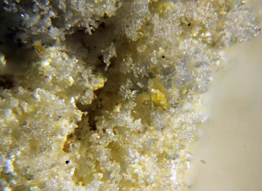 Yellowish crystals of the rare manganese sulphate mineral ilesite in a matrix of white apjohnite from one of the few localities known worldwide for ilesite. From: Santa Ana Mine, Mazarron, Murcia, Spain.